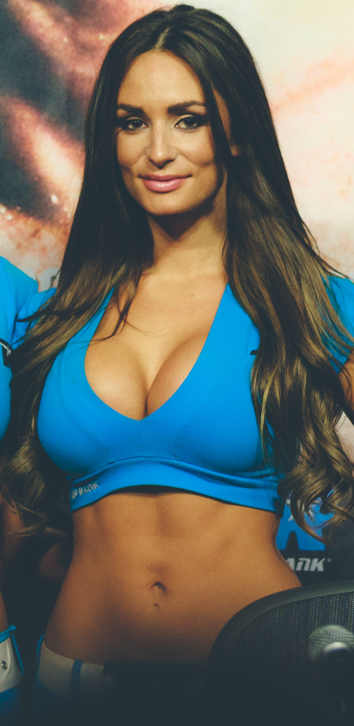 Rosie Roff at the Miguel Cotto vs Delvin Rodríguez post fight press conference.